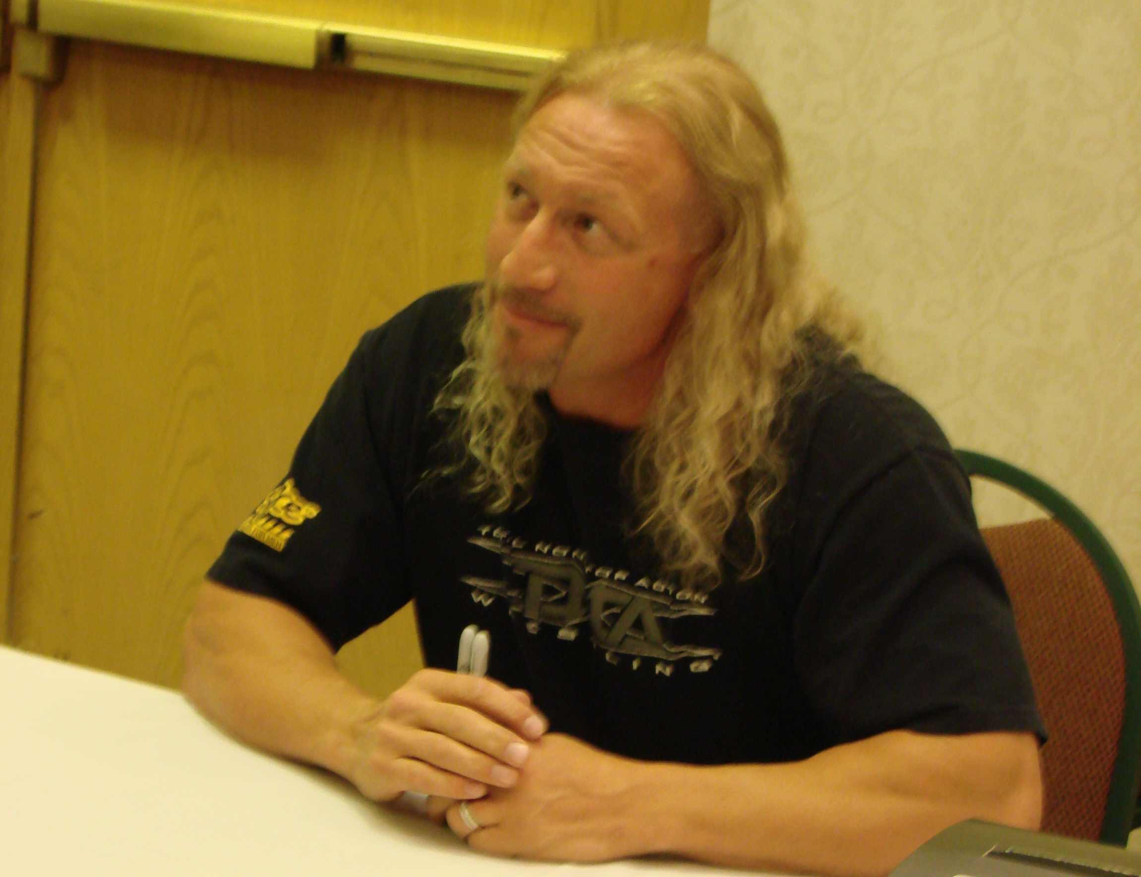 Jerry Lynn at :en:TNA Lockdown#2007| InterAction.